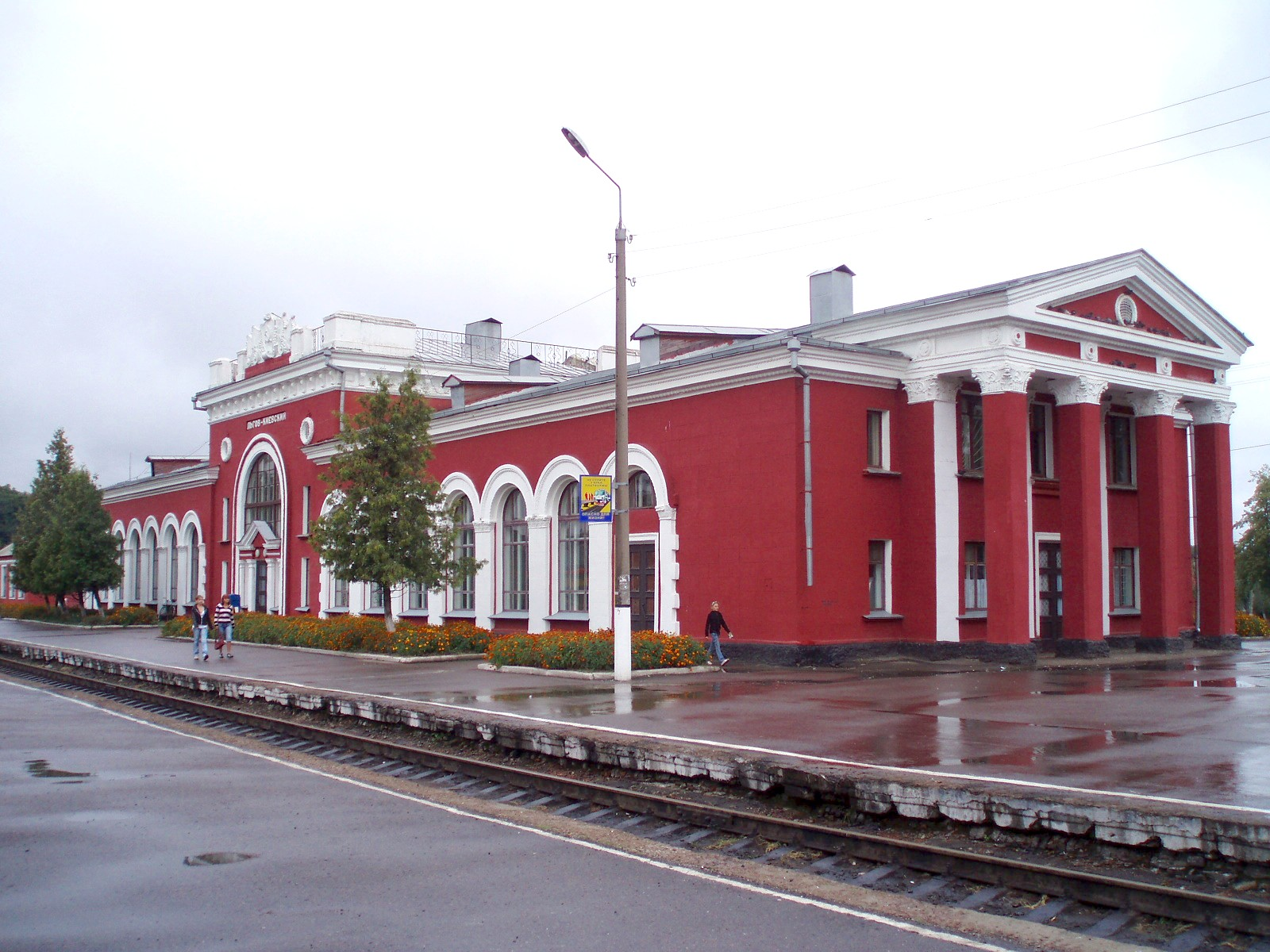 Lgov-Kievsky (Lgov-1) Train Station